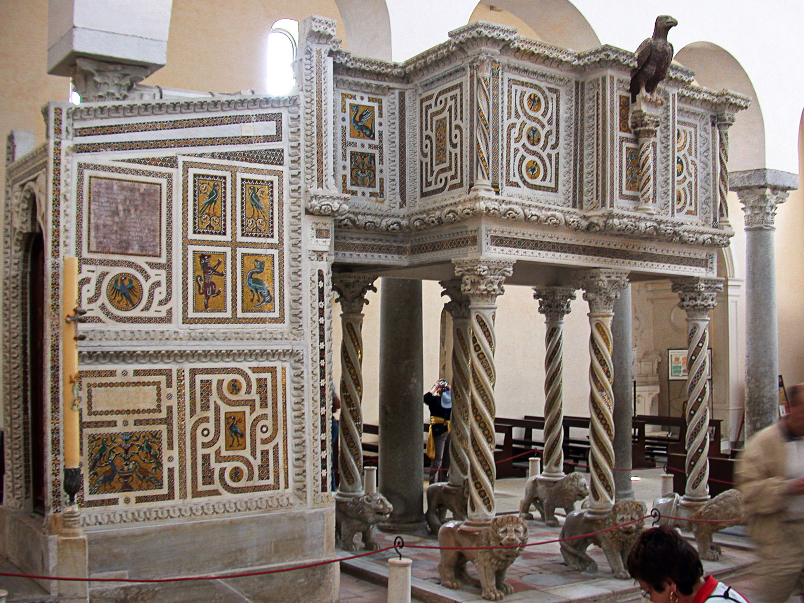 Pulpit of the Gospel — Ravello Cathedral.